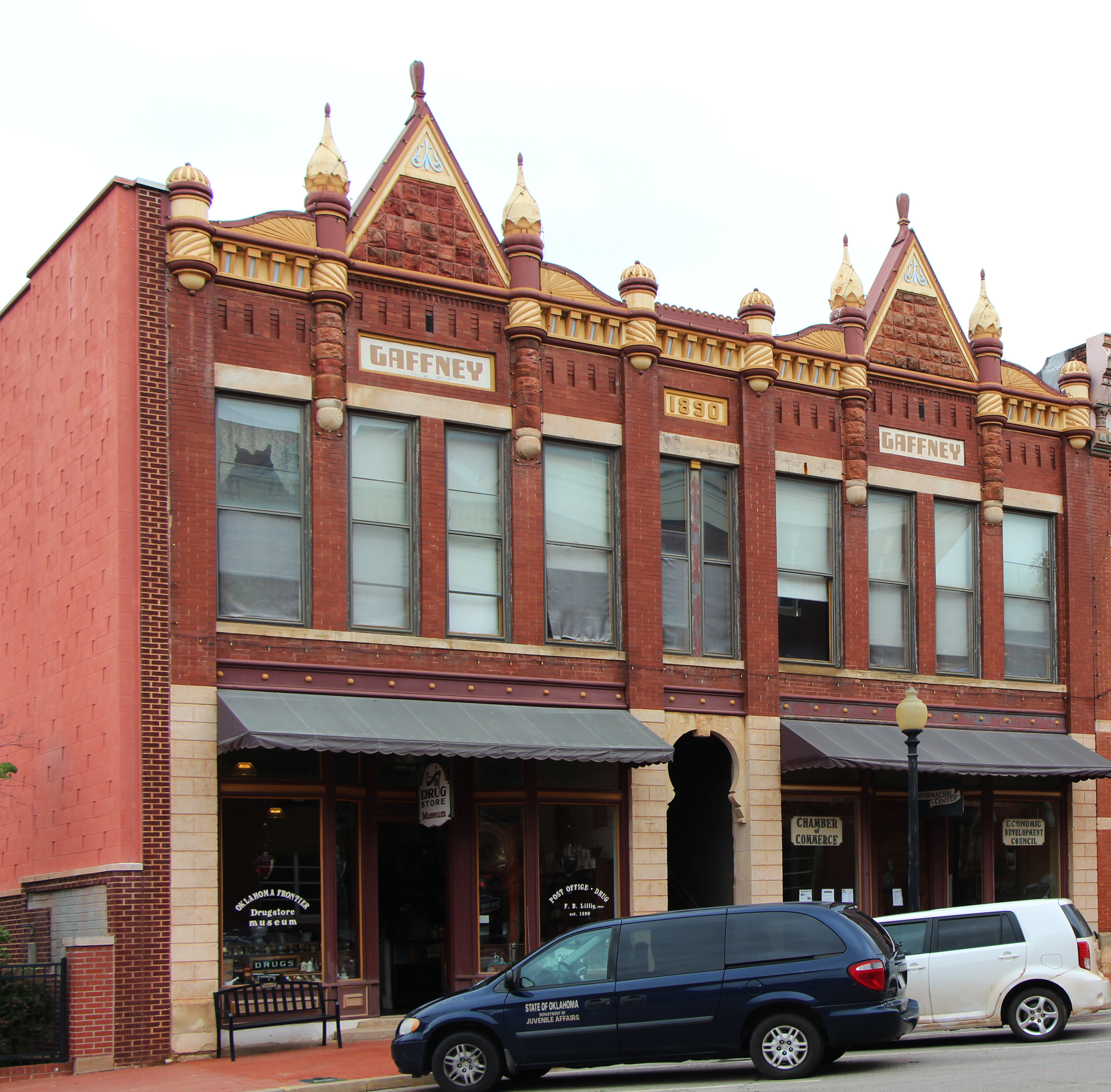 Gaffney Building, Guthrie, Oklahaom